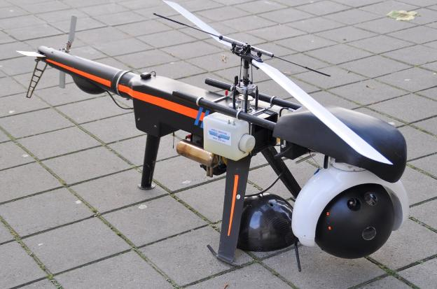 Cannachopper SUAVE 7 unmanned helicopter designed for searching cannabis plantations by Dutch Police Force.